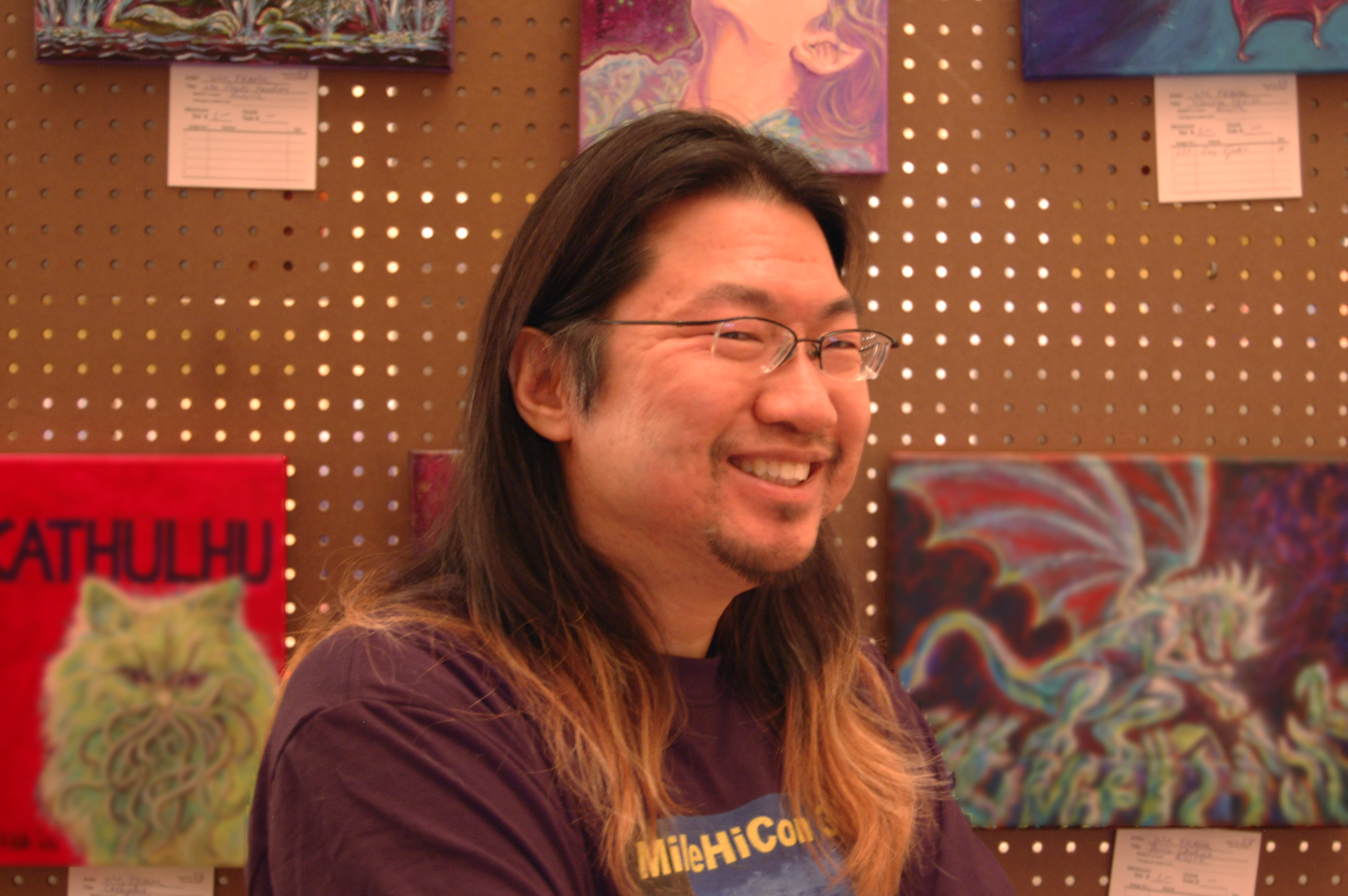 Frank Wu at MileHiCon 39 in Denver, Colorado.